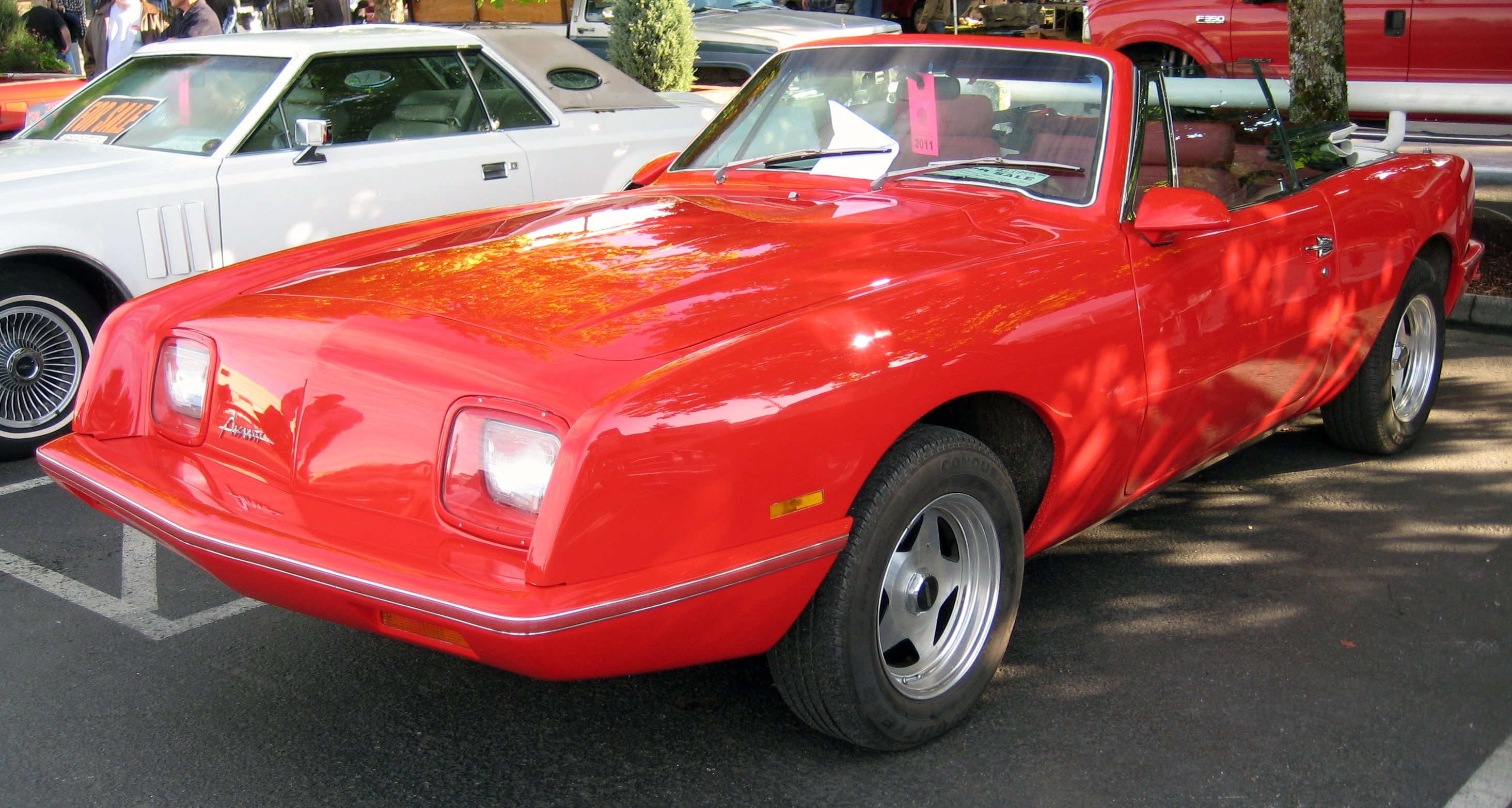 1989 Avanti II convertible at the October Swap Meet of the Antique Auto Restorers Club of Bellingham, held at the Evergreen State Fairgrounds in Monroe, Washington.